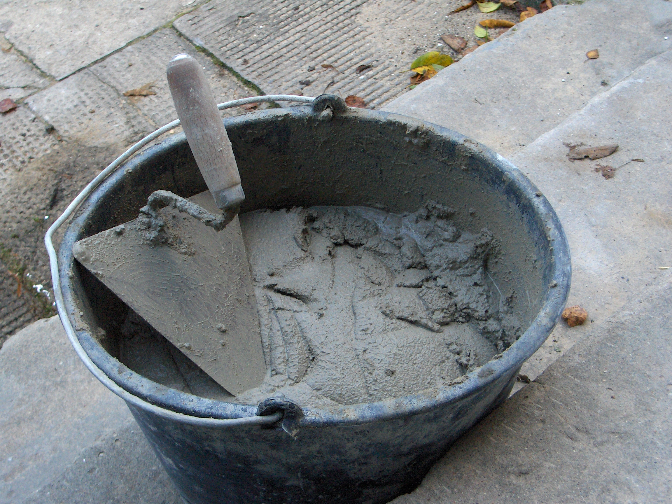 Masonry trowel in bucket full of mortar.